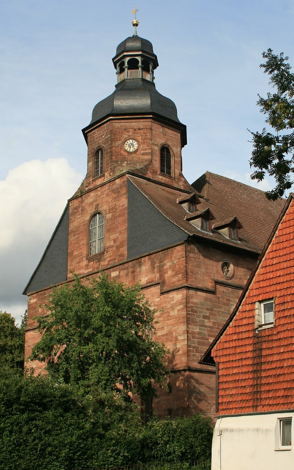 Church St. Alexandri in Einbeck, Germany. View from the south-west